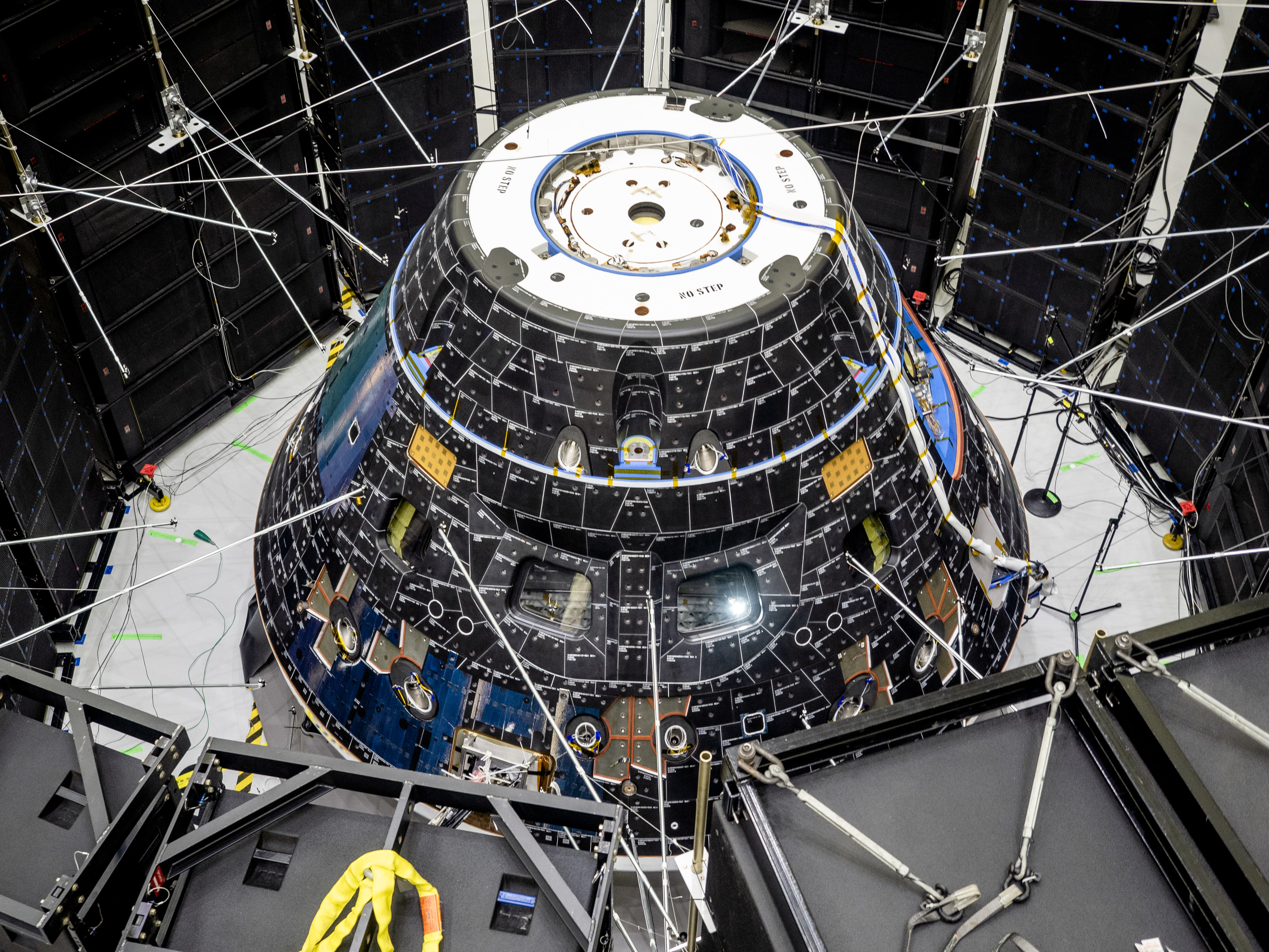 The Orion crew module for Exploration Mission-1 recently underwent Direct Field Acoustics Test where it was exposed to maximum acoustics levels that the vehicle will experience in space. Spacecraft response and sound pressure data were collected with microphones, strain gauges and accelerometers. The max decibel level was 141dB.